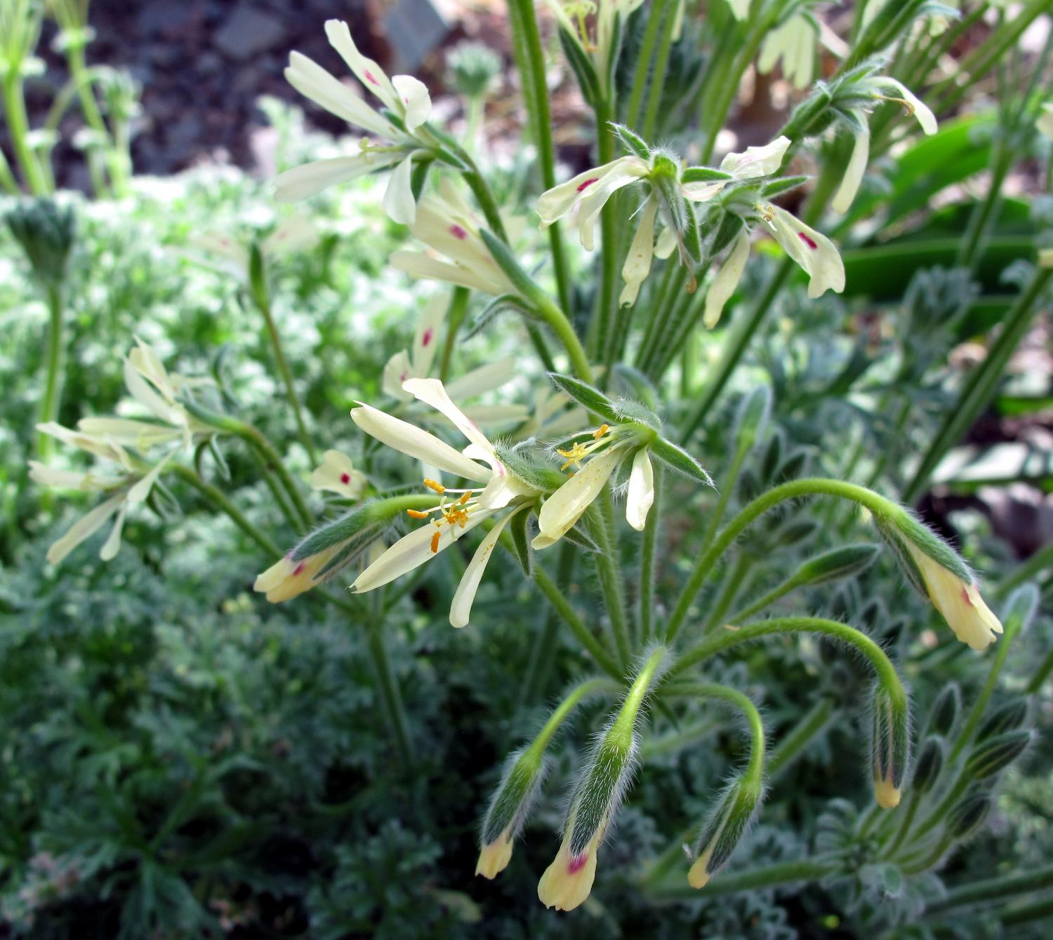 Pelargonium appendiculatum, family Geraniaceae